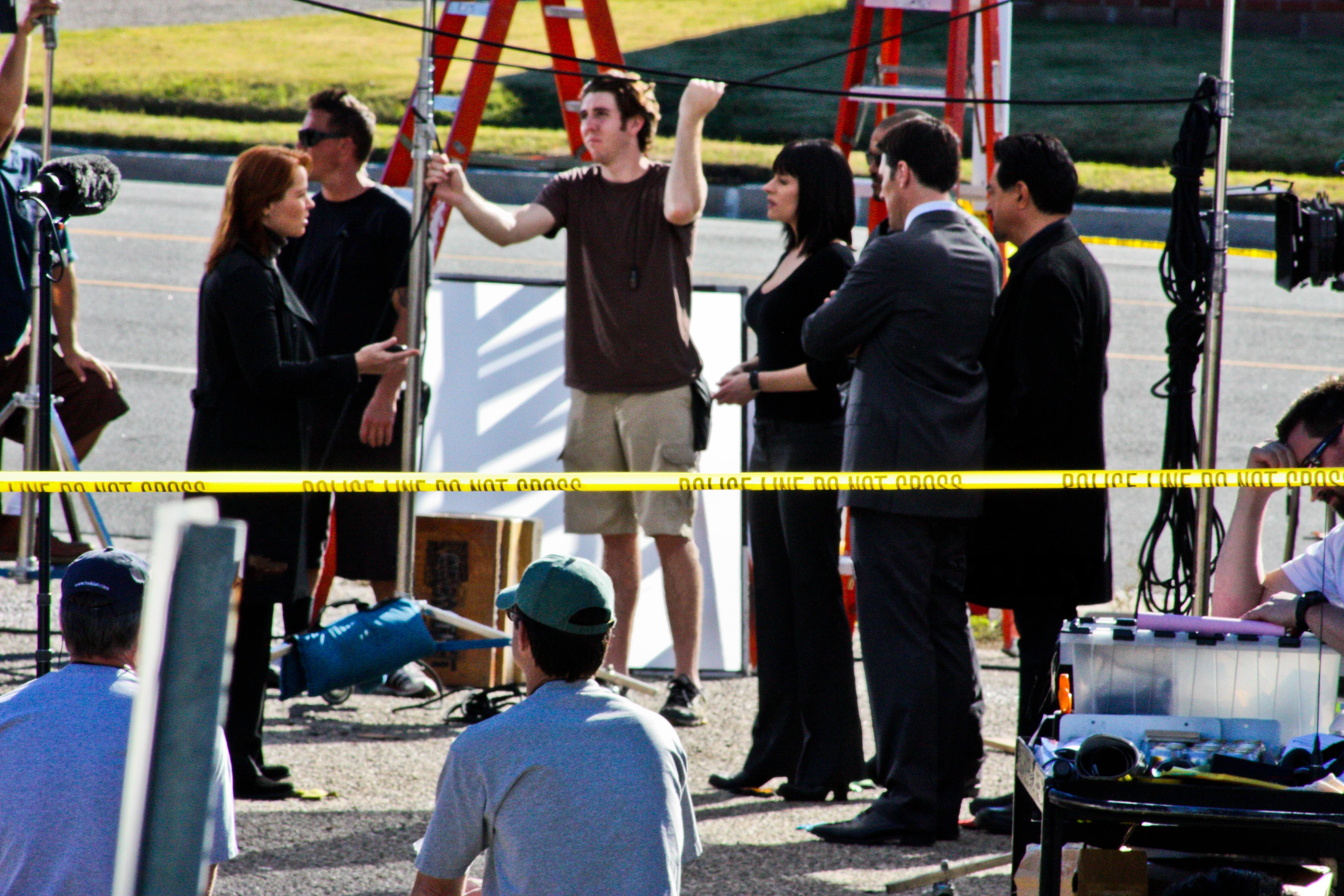 A scene from the filming of the TV show "Criminal Minds" during season 6 of its run in Simi Valley, California, USA in December 2010.